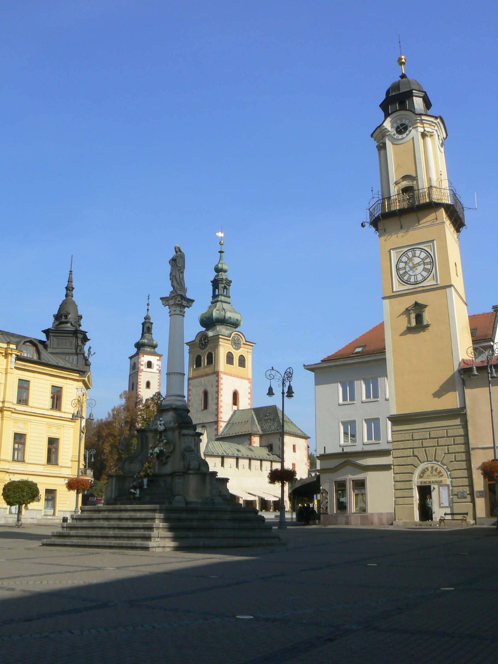 The centre of Banska Bystrica, Slovakia.